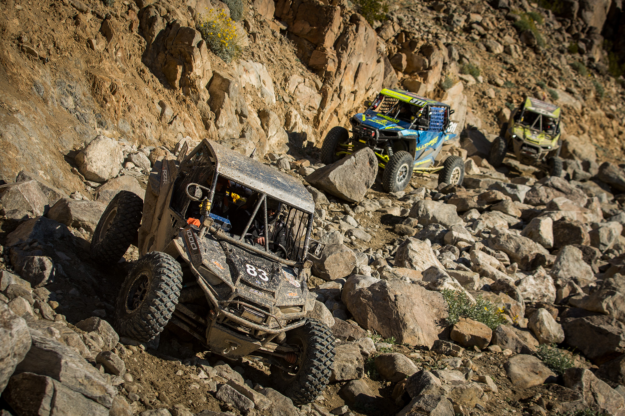 King of the Hammers is considered the toughest one-day off road race in the world. It is the largest off-road race event in North America in terms of both competitors and spectators. It combines desert racing and rock crawling, and has expanded from one race to a series of 5 races held throughout the week that take place each February on BLM-manged public lands in Johnson Valley, California. Photo courtesy of Phil Henderson.